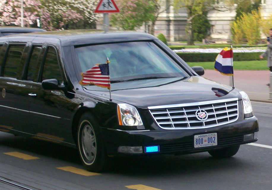 U.S. President George W. Bush travels in the presidential limousine in Zagreb, Croatia.